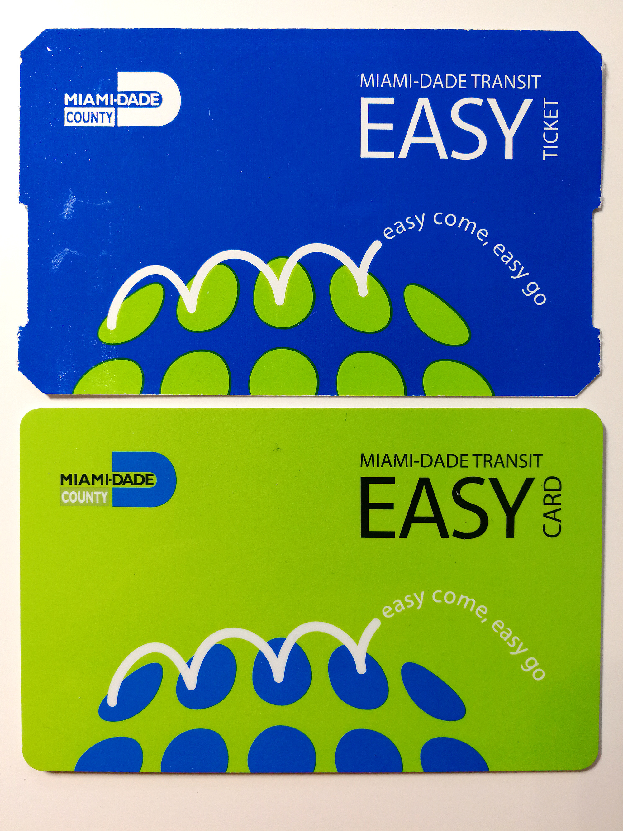 The Easy Ticket and Easy Card used by Miami-Dade Transit system including Metrorail and Metrobus